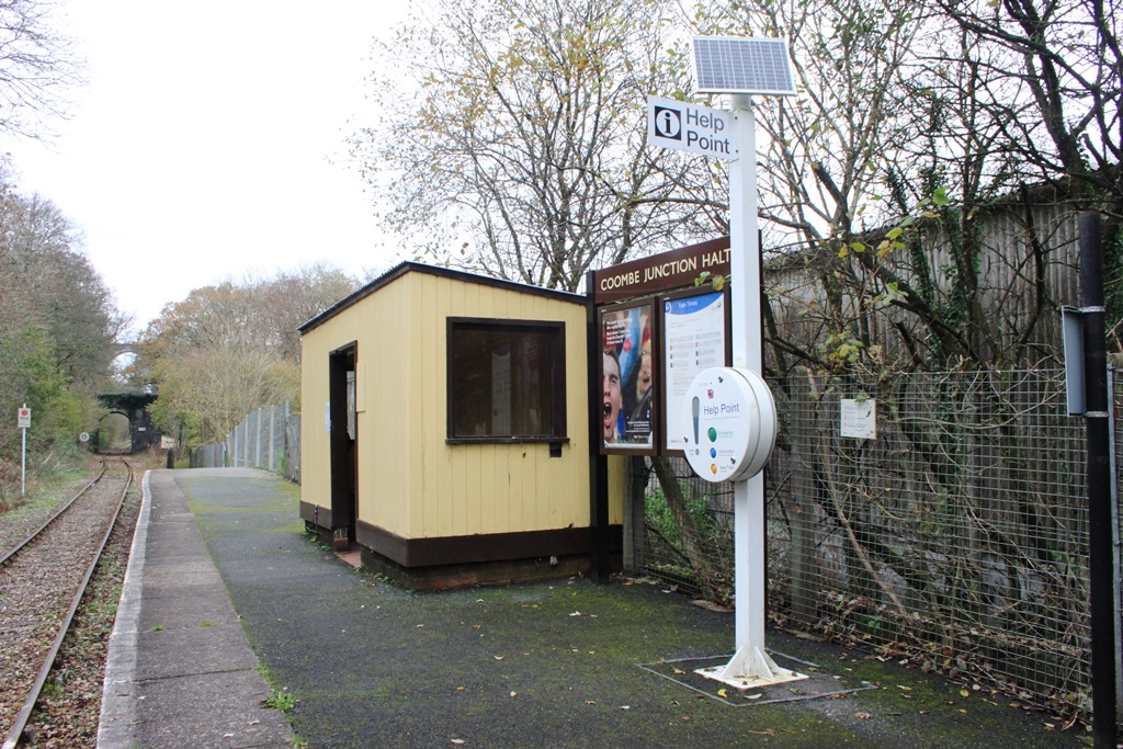 Coombe Junction Halt on the Looe Valley Line in Cornwall, looking north towards the freight track to Moorswater.